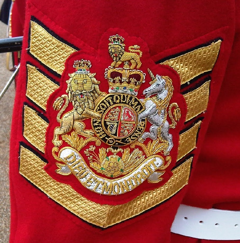 New badge of Rank (wef 28 April 2011) of the Garrison Sergeant Major London District, British Army